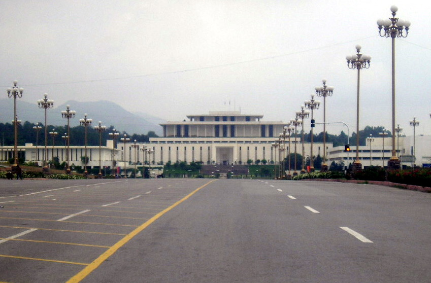 The President House in Islamabad, Pakistan. Olympus Camedia (G20 Parallel People's Conference, September 2005). Slightly improved with Picasa.